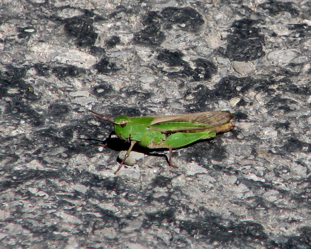 Northern Green-striped Grasshopper (Chortophaga viridifasciata viridifasciata), Ottawa, Ontario